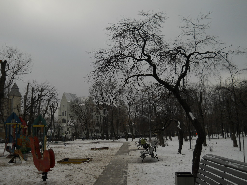 Moscow, park of Devychego Polya in winter.